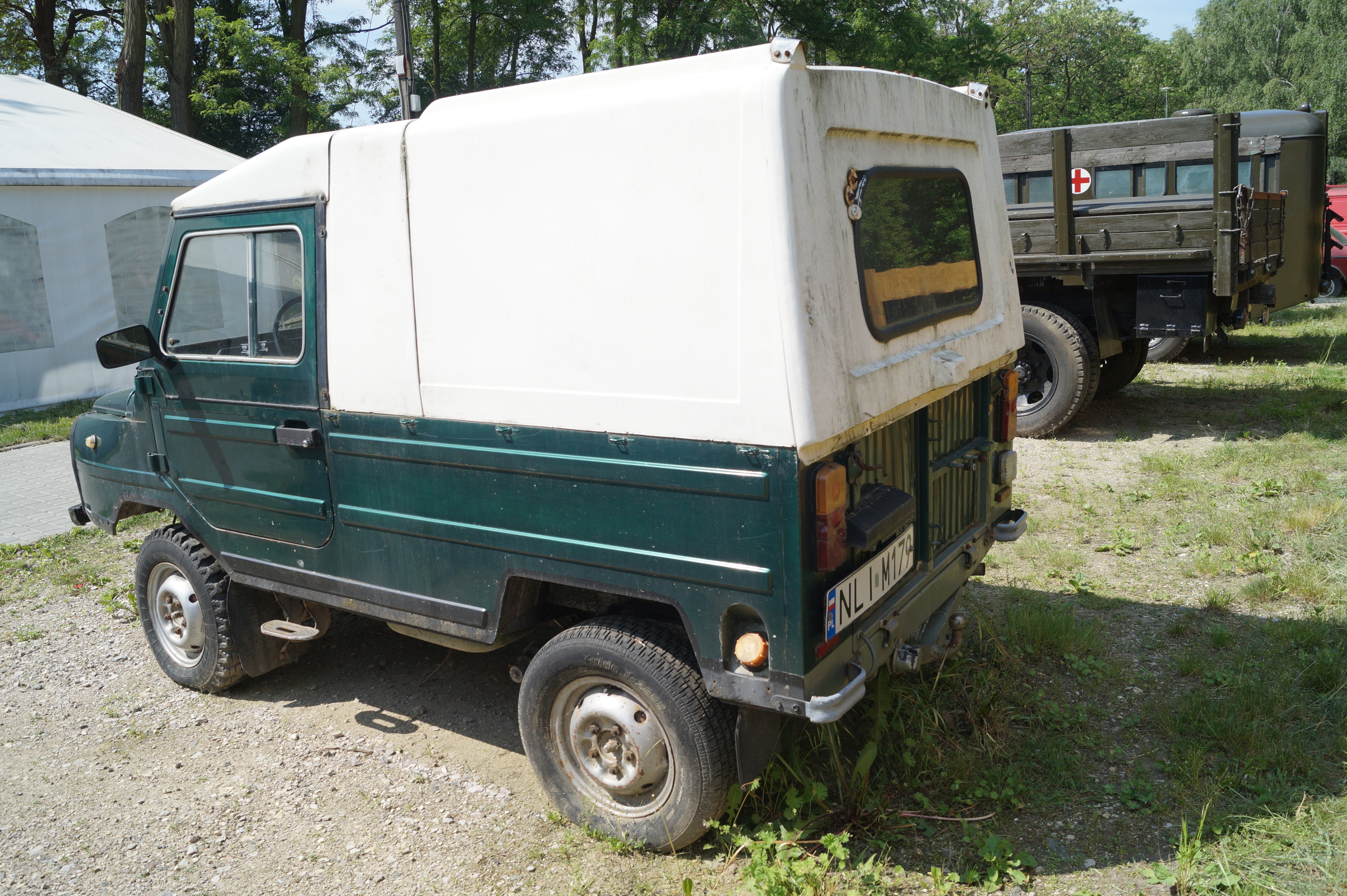 The making of this document was supported by Wikimedia Polska Association, within Wikigrant no. WG 2016-18. English | polski | +/− Samochód terenowy Wilk w Muzeum w Nieborowie